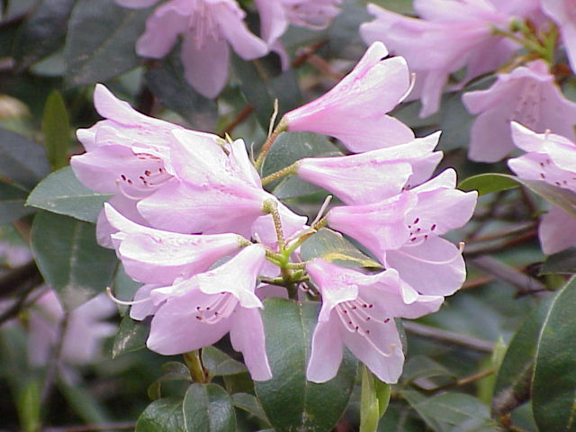 Species: 'Rhododendron yunnanense (syn R. aechmophyllum) Family: Ericaceae Image No. 1